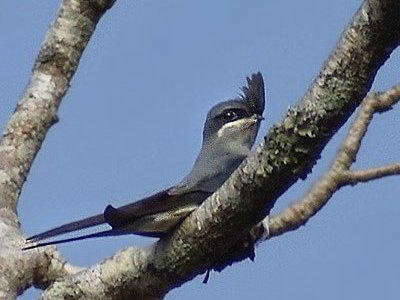 Crested Tree Swift